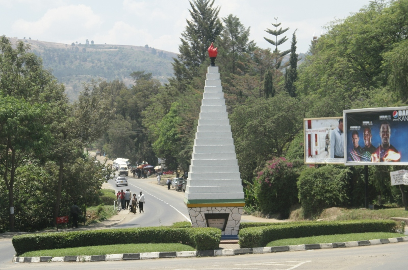 uhuru torch roundabout in town